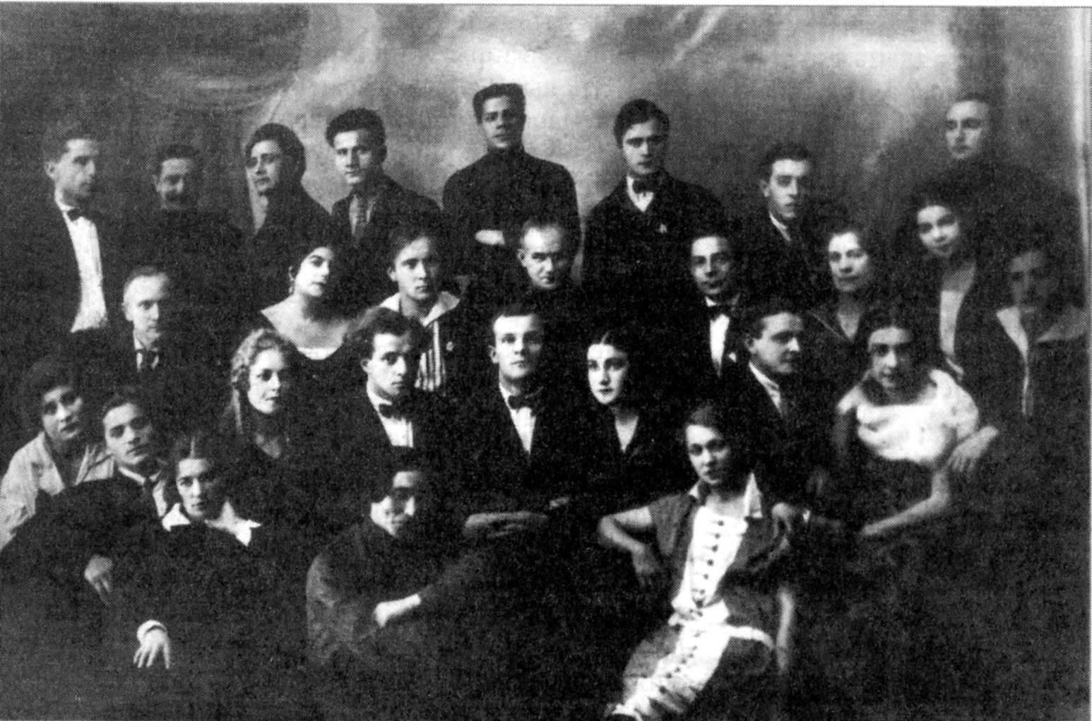 Entire cast of Belarusian wandering theatre (1926) Беларуская (тарашкевіца): Акторы Беларускага вандроўнага тэатра (1926)